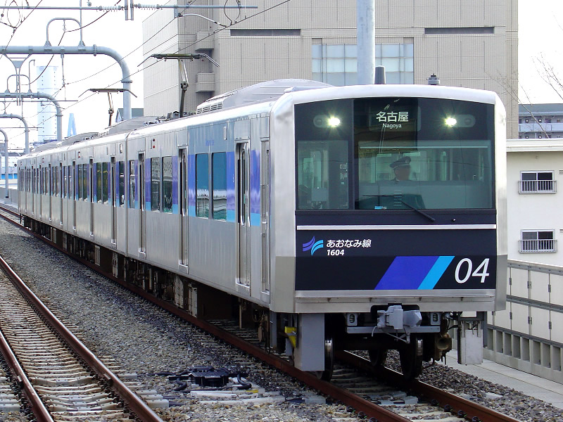 Aonami Line series 1000